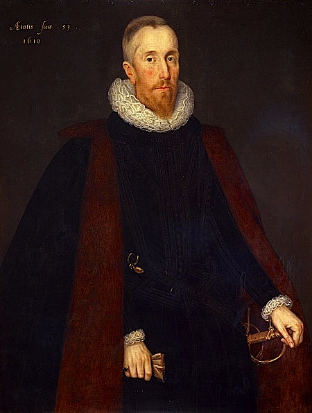 Portrait of Alexander Seton 1st Earl of Dunfermline, 1610.